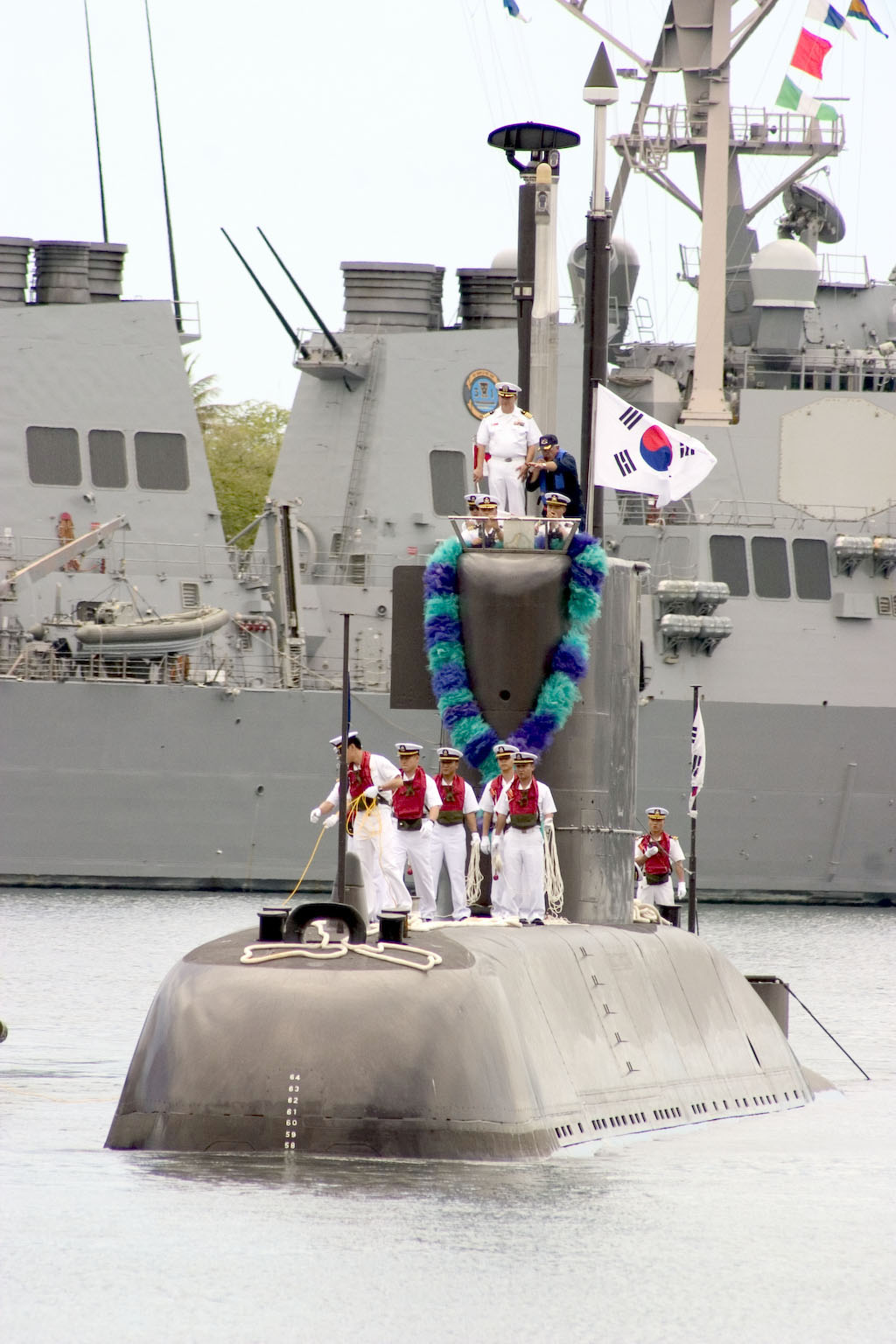 060524-N-5539C-002 Pearl Harbor, Hawaii (May 24, 2006) - The Republic of Korea Navy Submarine Jung Woon (SS 67) prepares to moor at the submarine piers at Naval station Pearl Harbor for this year's Rim of the Pacific Exercise (RIMPAC). Jung Woon is the first foreign submarine to enter Pearl Harbor for the exercise, which is held every two years. RIMPAC is designed to increase cooperation aboard submarines and surface ships from the U.S., UK, Canada, Australia, Japan, South Korea and Chile. U.S. Navy photo by Journalist 2nd Class Corwin Colbert (RELEASED)